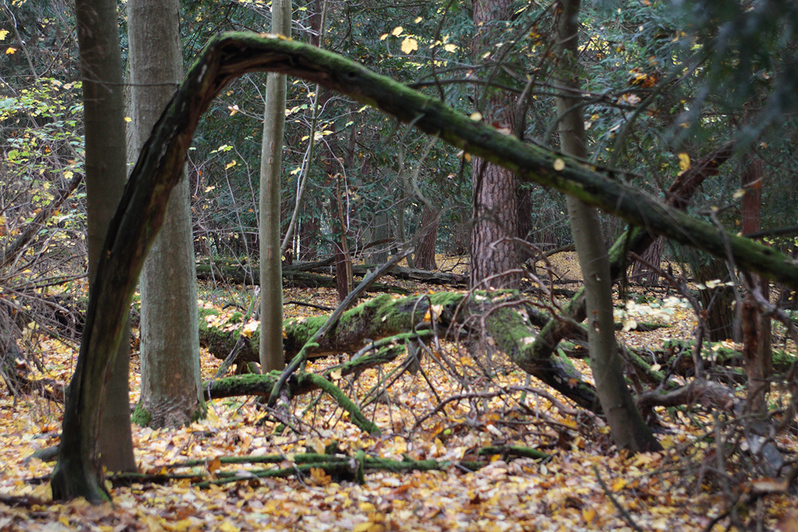 (European Yew), Poland - Nature reserve "Cisy Staropolskie"